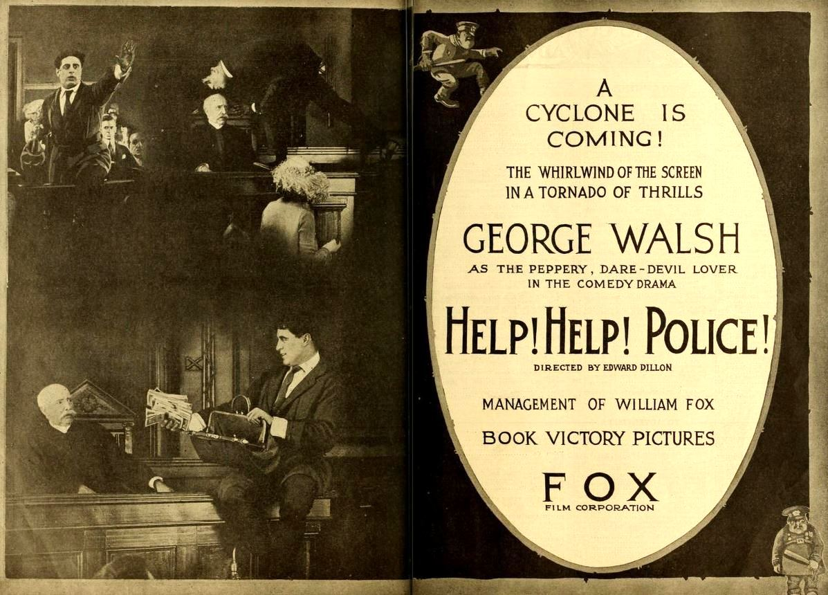 Advertisement for the American comedy film Help! Help! Police! (1919) with George Walsh and Joseph Burke (1884 – 1950), on pages 492 and 493 of the April 26, 1919 Moving Picture World.